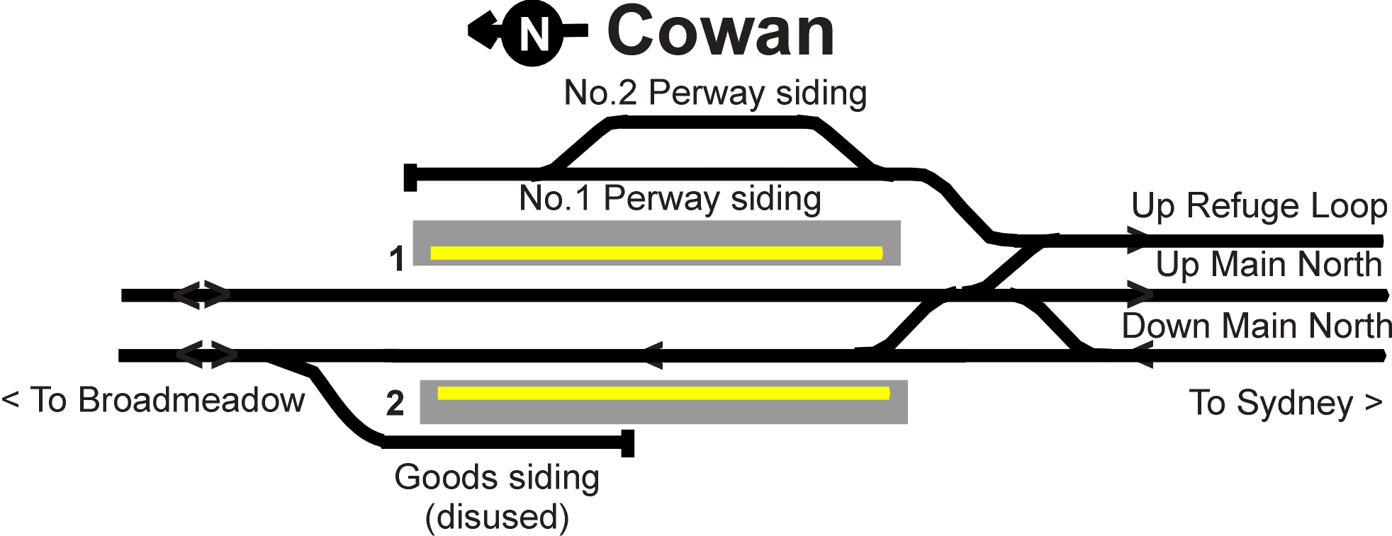 Track layout at Cowan railway station, New South Wales